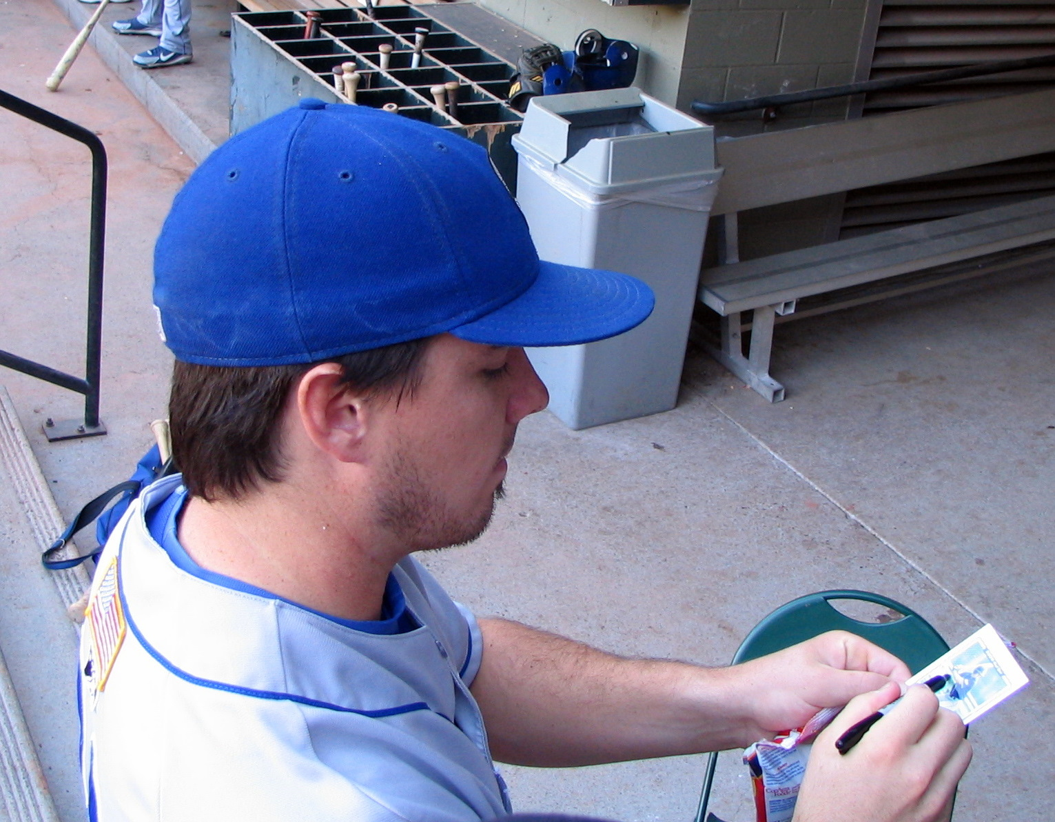 Andy LaRoche signs autographs for fans at PGE Park in Portland, Oregon during a minor league game between the Las Vegas 51's (Los Angeles Dodgers affiliate) and the Portland Beavers (San Diego Padres affiliate). 04:59, 16 April 2008 . . Sp8cem0nkey . . 1,531×1,192 (582 KB)